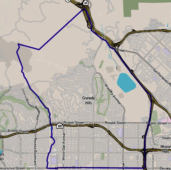 Map of Granada Hills, as outlined by the Los Angeles Times Other information Boundary map as drawn by the Los Angeles Times on a CC-by-SA background. Note at bottom right of map on the L.A. Times website noted above says "CC-by-SA" (which gives permission to use the map). There is a link there to which explains the meaning thereof. The base map is credited to The Times spells all this out at